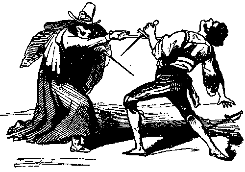 Dueling with swords